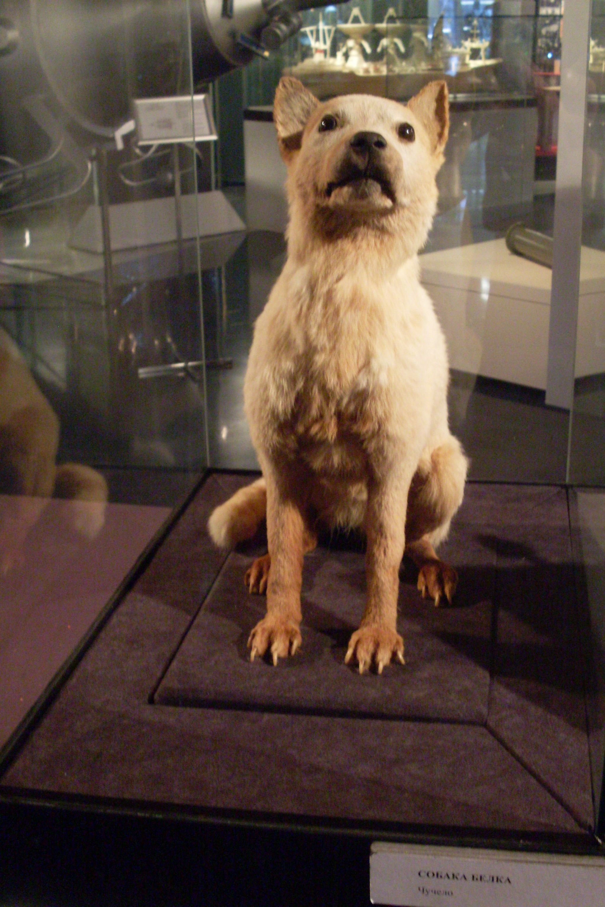 Belka in the Memorial Museum of Cosmonautics in Moscow.